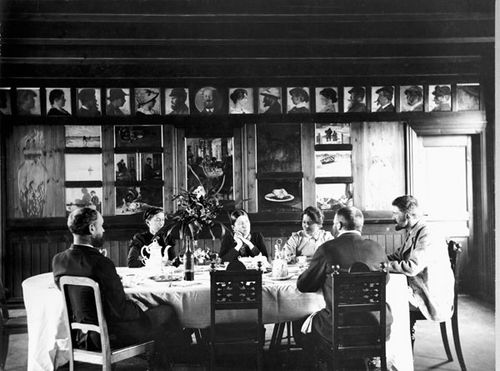 Old photograph from Brøndums Hotel in Skagen, Denmark. The hotel was an important venue for the Skagen Painters